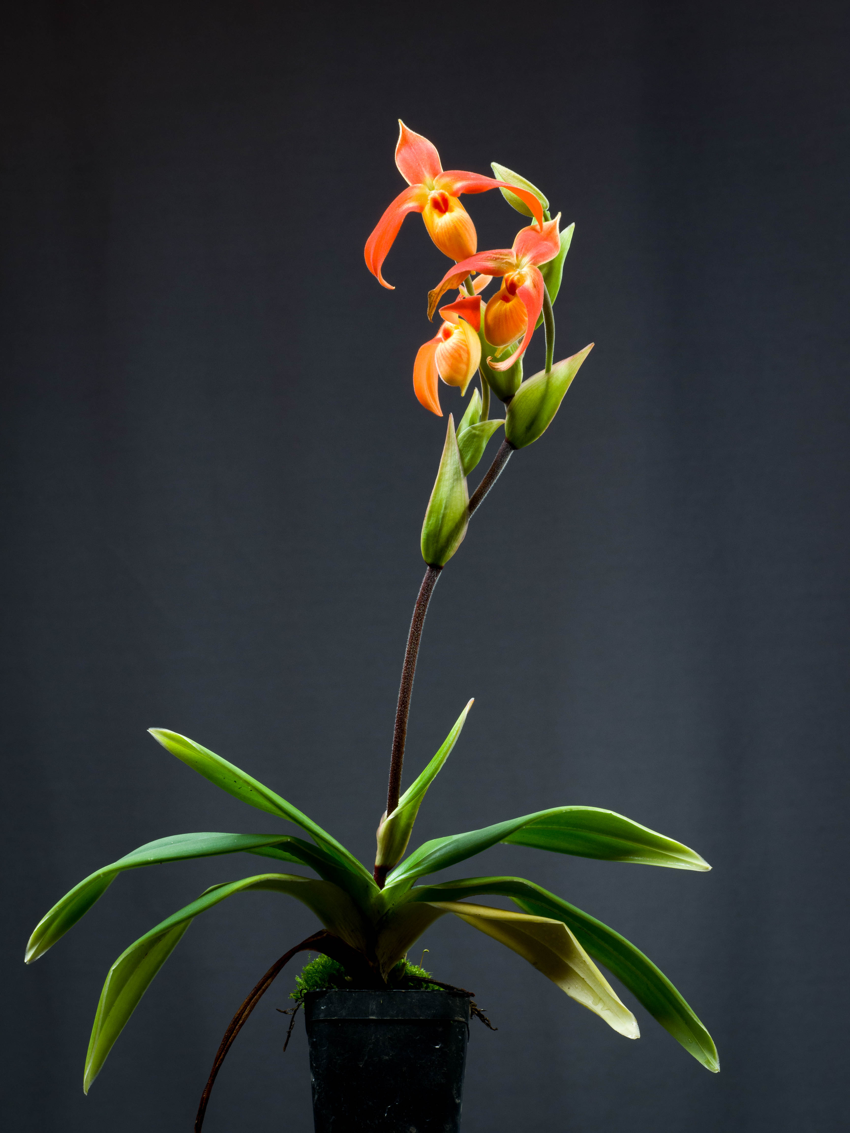 From Fox Valley Orchids. A selfed progeny of the plant, positively identified by its discoverer, Dr. Cal Dodson, prior to its AOS Certificate of Horticultural Merit award.